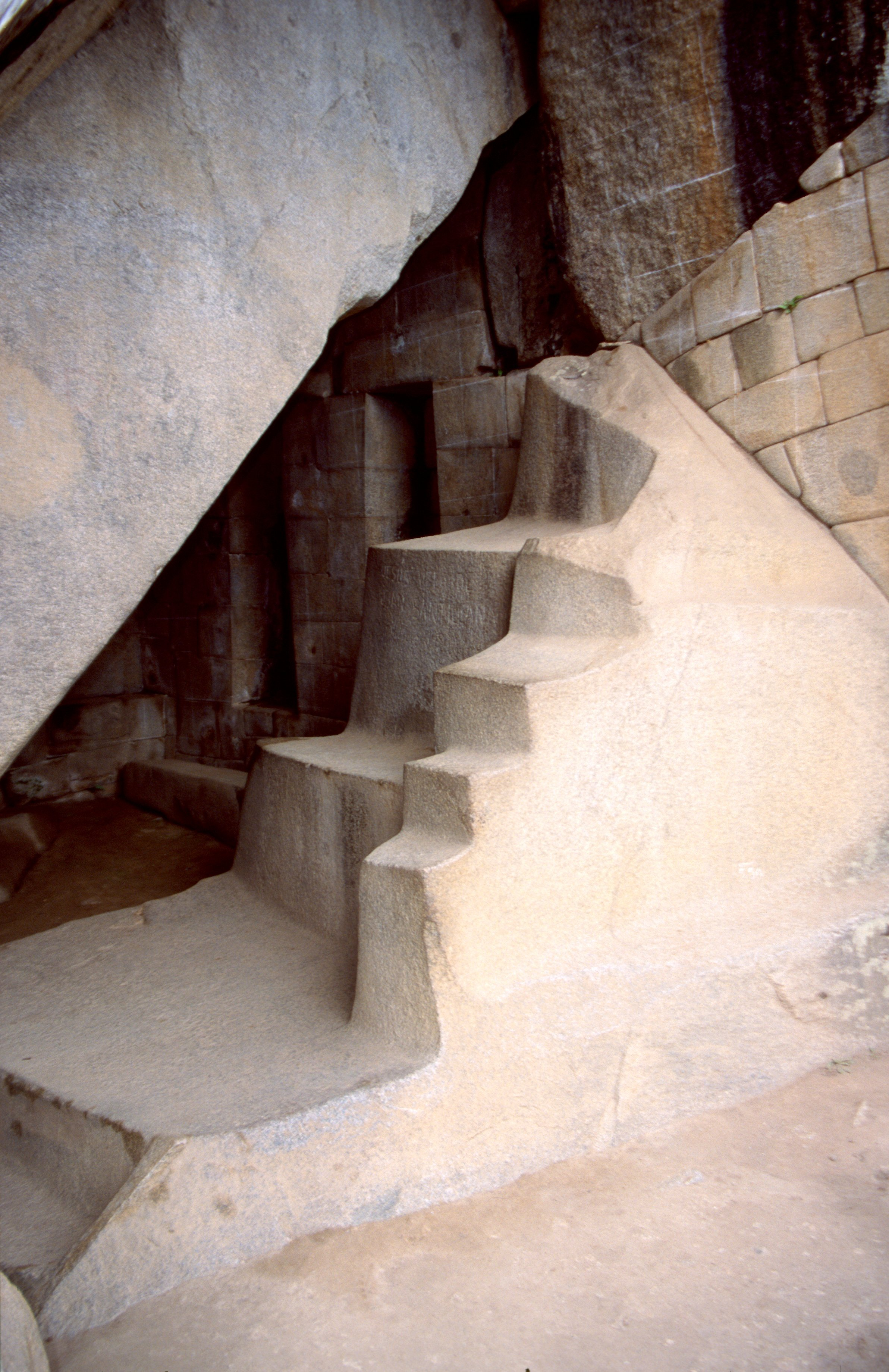 Machu Picchu, Perú. Stairs carved in a rock at the enter of Royal Tomb, below Temple of Sun's Torreon.